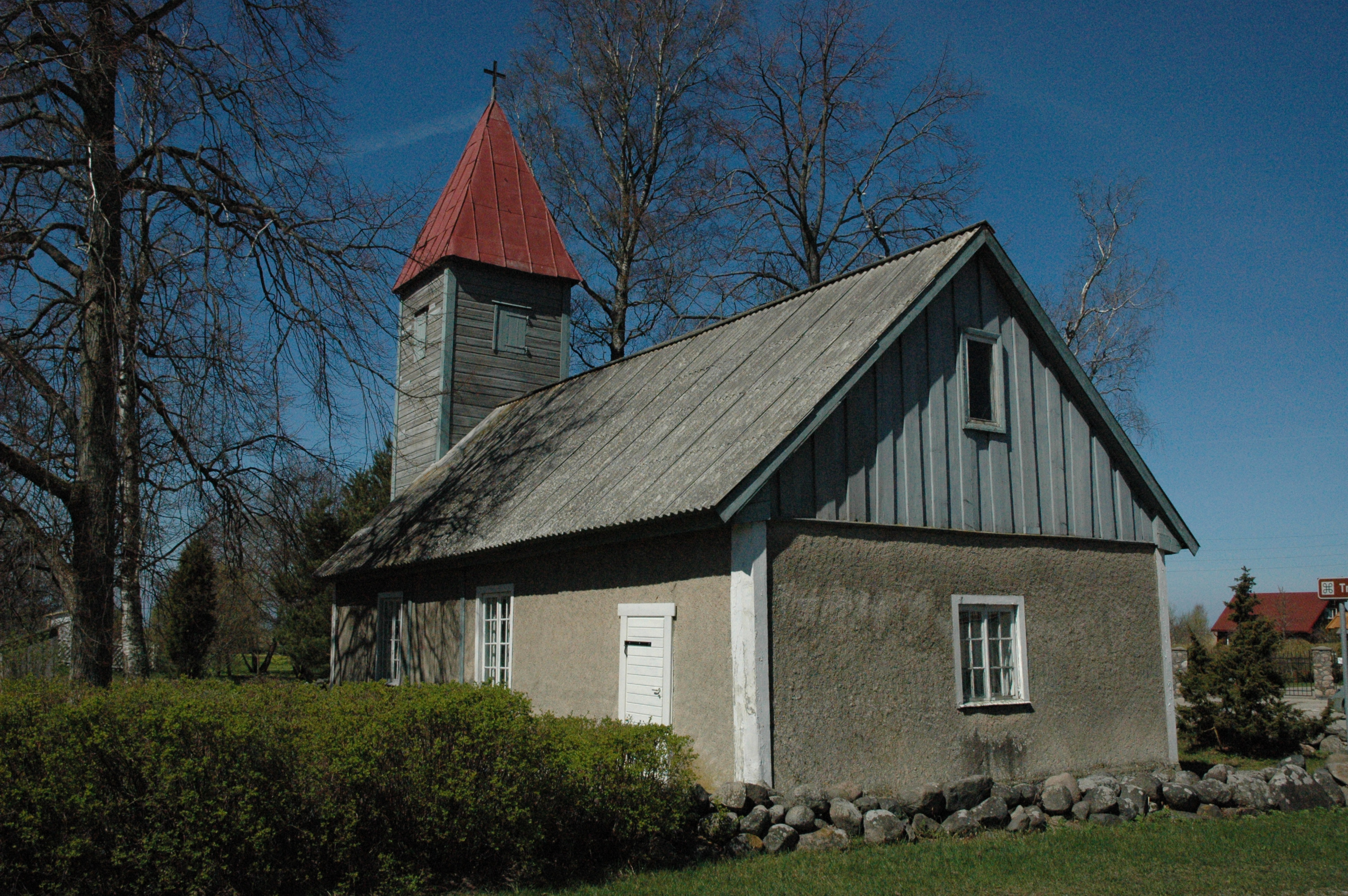 Treimani Lutheran Church of St. Matthias the Apostle